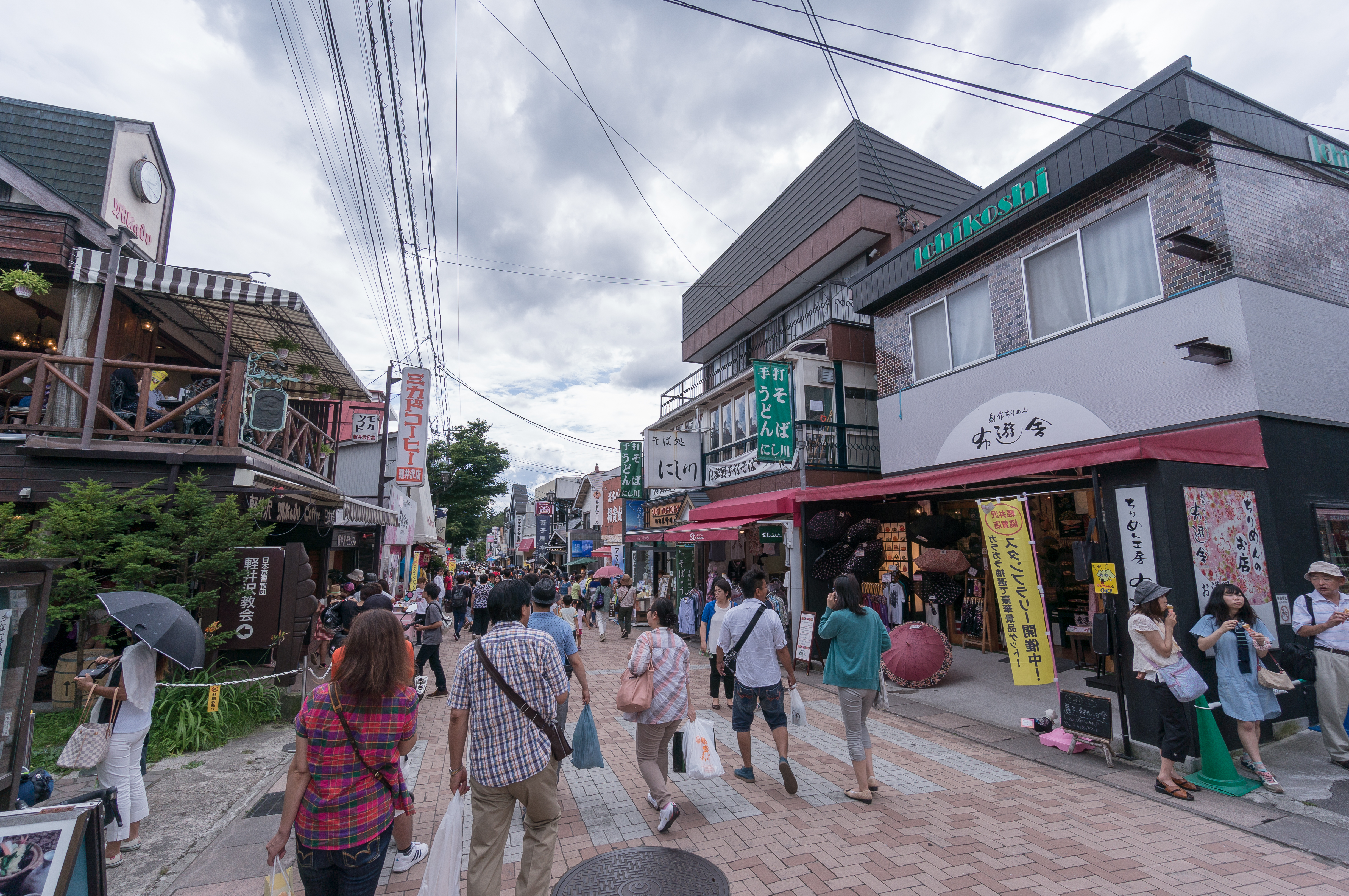 Old Karuizawa Ginza in Karuizawa, Nagano Prefecture, Japan.